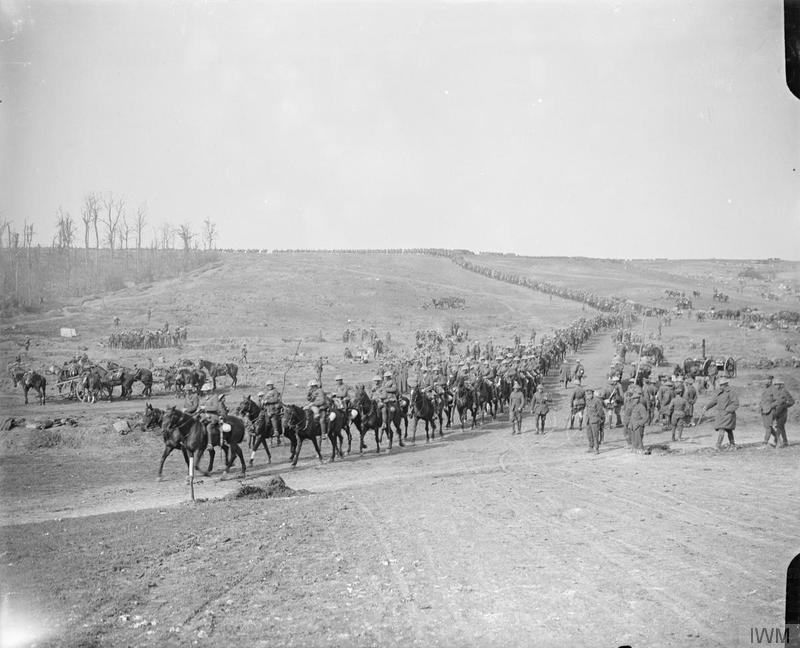 The Battle of the Somme, July-november 1916 Battle of Flers-Courcelette. 15-22 September. Troops of the 2nd Dragoon Guards (Queen's Bays) on the march approaching Hardecourt Wood, 18 September 1916.